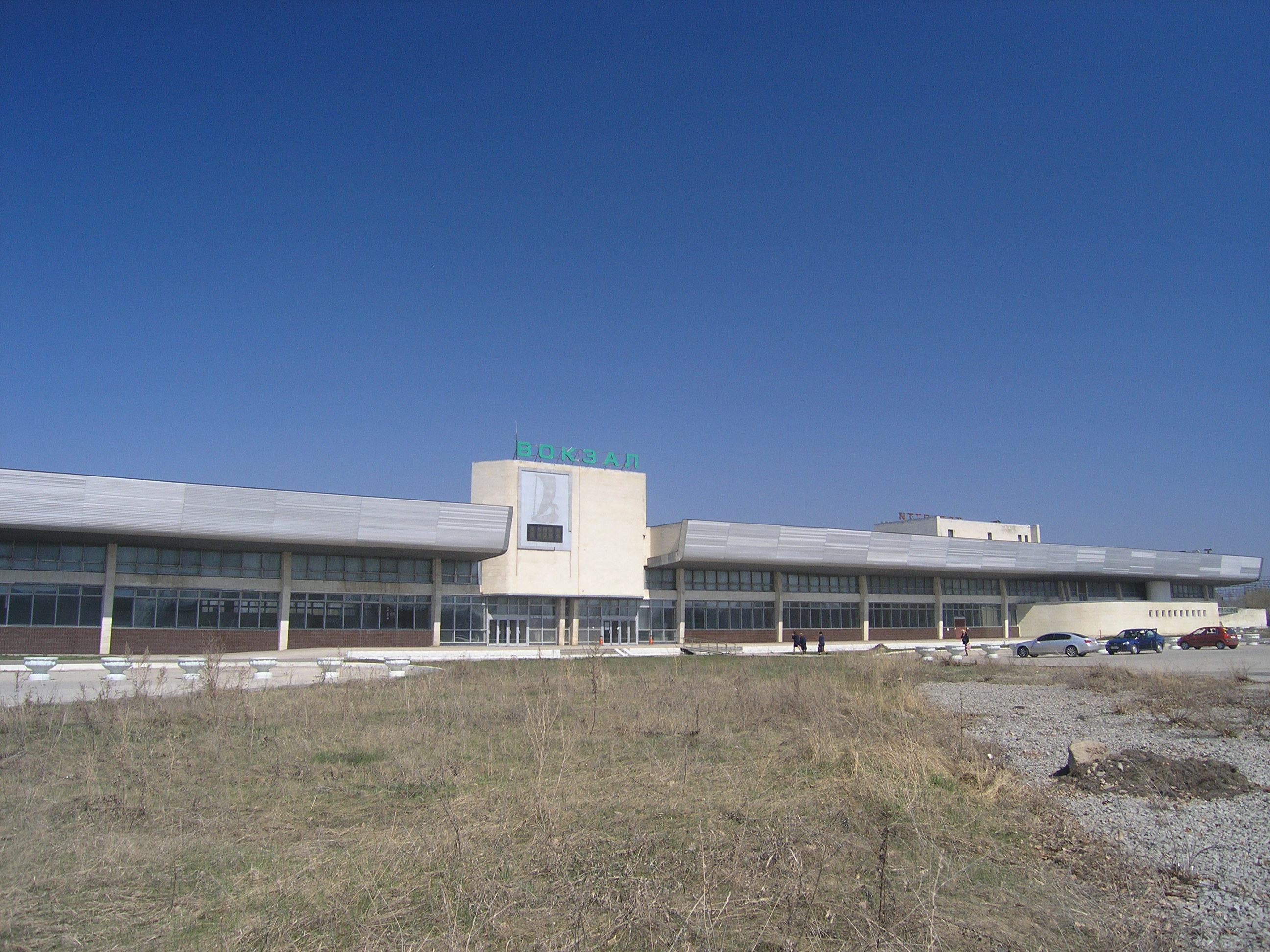 Togliatti railway station